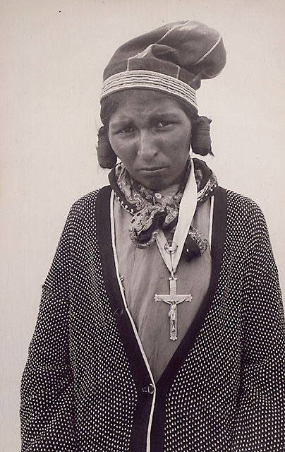 Title / Titre : Innu (Montagnais) woman, probably taken at North West River, Labrador, ca. 1930 / Femme Innu (Montagnais), probablement photographiée à North West River (Territoires du Nord-Ouest), vers 1930 Creator(s) / Créateur(s) : Fred. C. Sears Date(s) : 1930 Reference No. / Numéro de référence : MIKAN 3224646 Location / Lieu : North West River, Labrador Credit / Mention de source : Fred. C. Sears. Library and Archives Canada, PA-148589 / Fred. C. Sears. Bibliothèque et Archives Canada, PA-148589